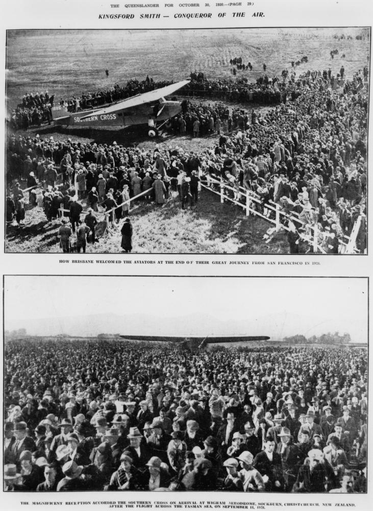 Crowd scenes at Brisbane and New Zealand, to greet Charles Kingsford Smith and his aeroplane Southern Cross, 1928. Two photographs of the Fokker F.VII, Southern Cross. Top photograph shows Kingsford Smith's Southern Cross in the centre of a huge crowd when he landed at Brisbane after flying from San Francisco. The lower photograph shows only the wings of Southern Cross visible in the crowd at Wigram Aerodrome, Christchurch, New Zealand.